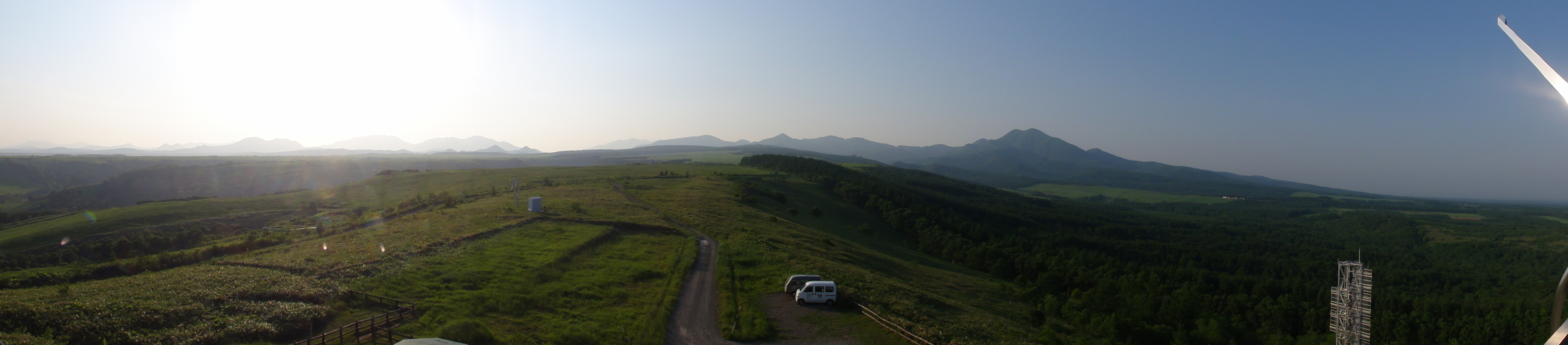 View from Kaiyoudai(eastt from the west)